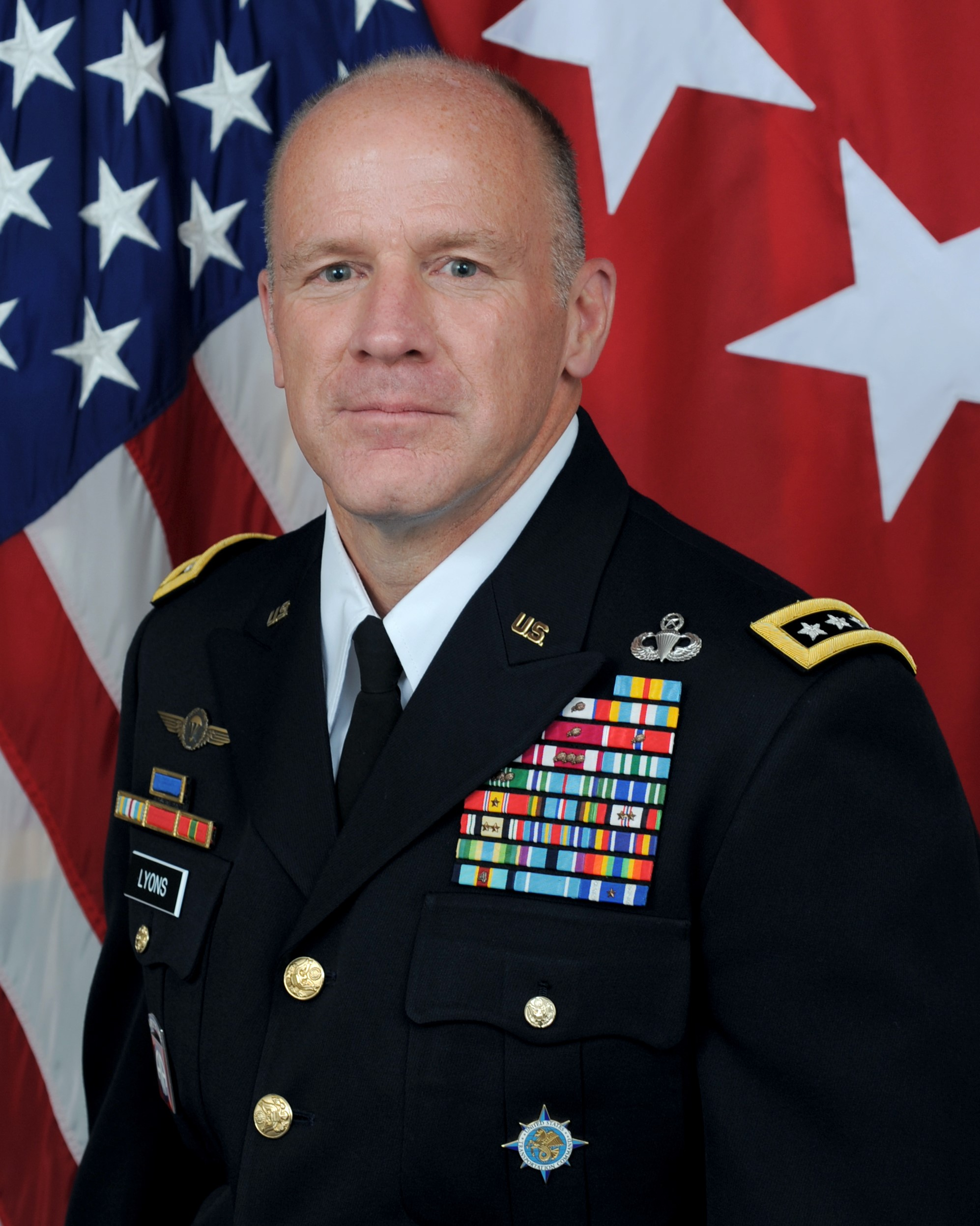 Gen. Stephen R. Lyons